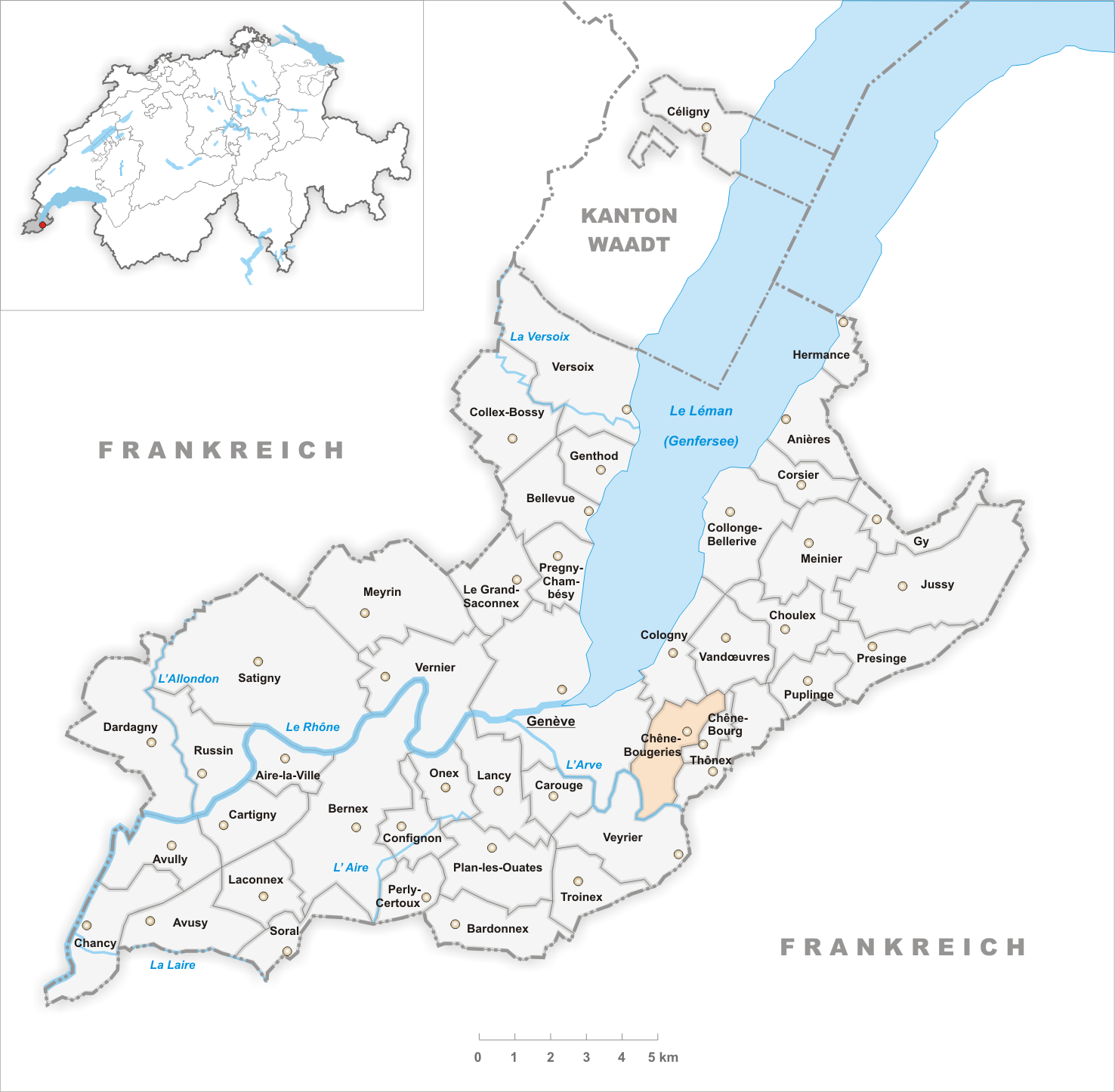 Municipality Chêne-Bougeries